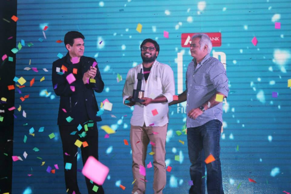 IFP 2014 Winner receiving the award from Jury Hansal Mehta and Omung Kumar